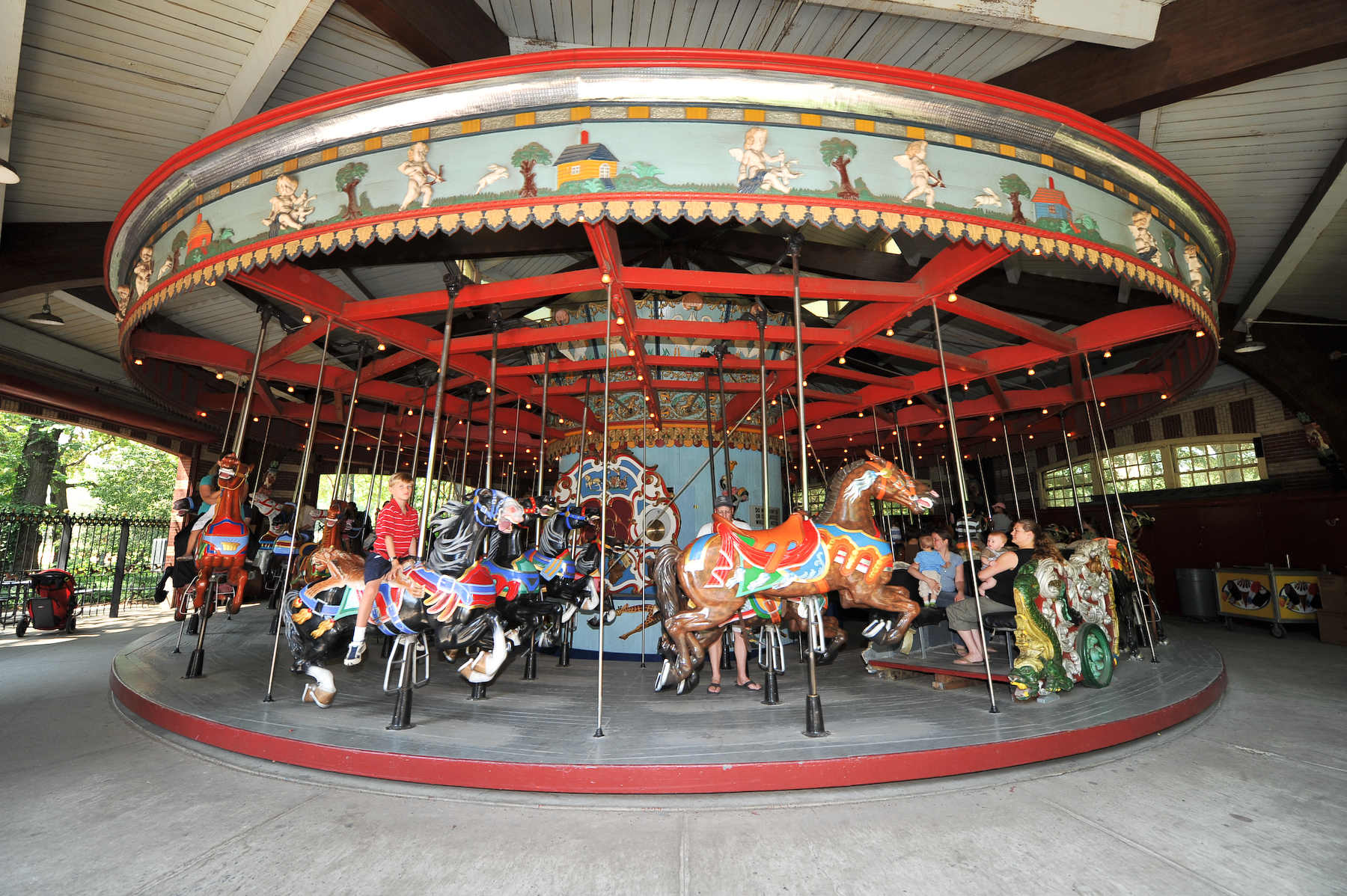 Sights, sounds, and perhaps not the smells of NYC.